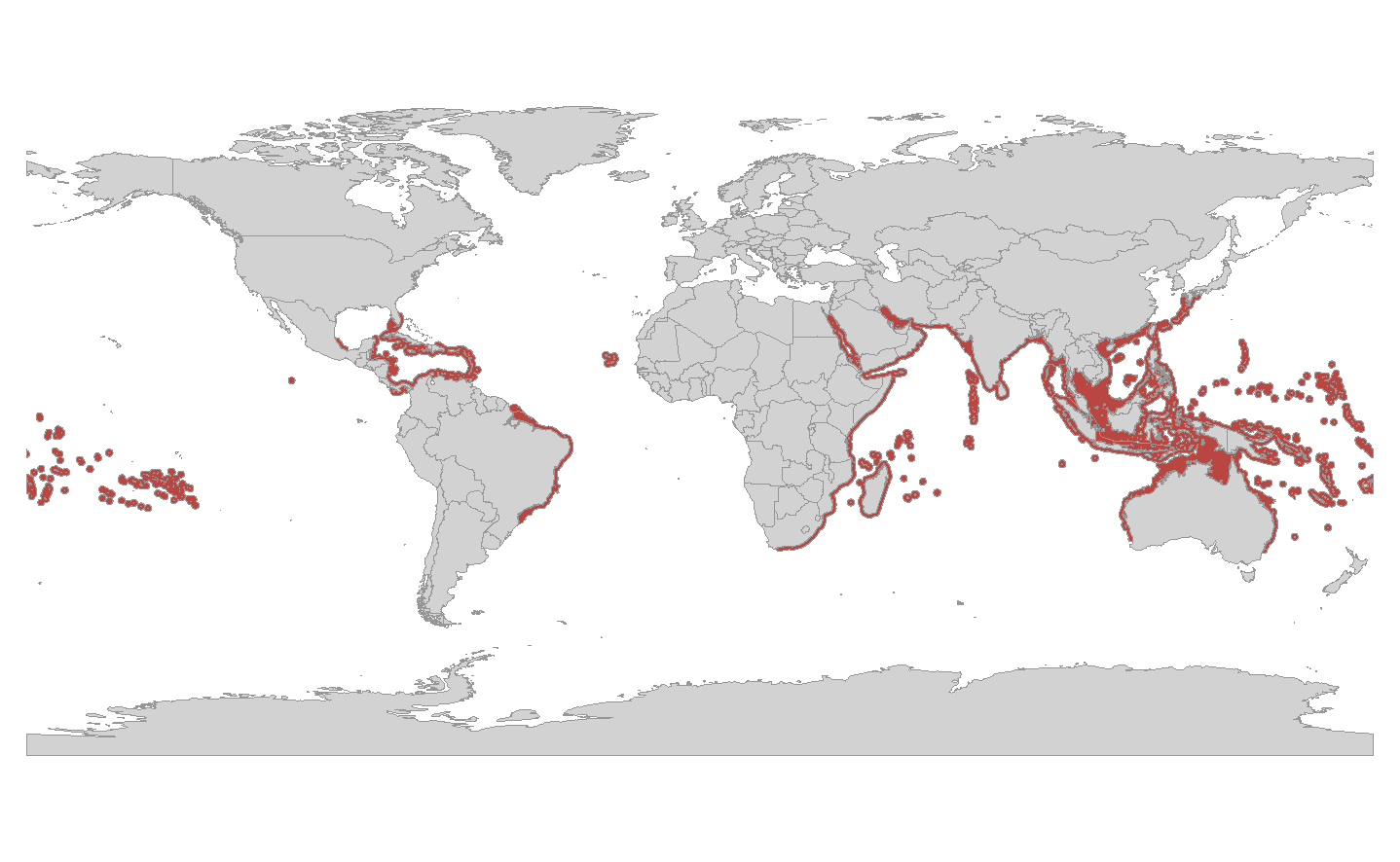 Fire coral (Milleporidae) range